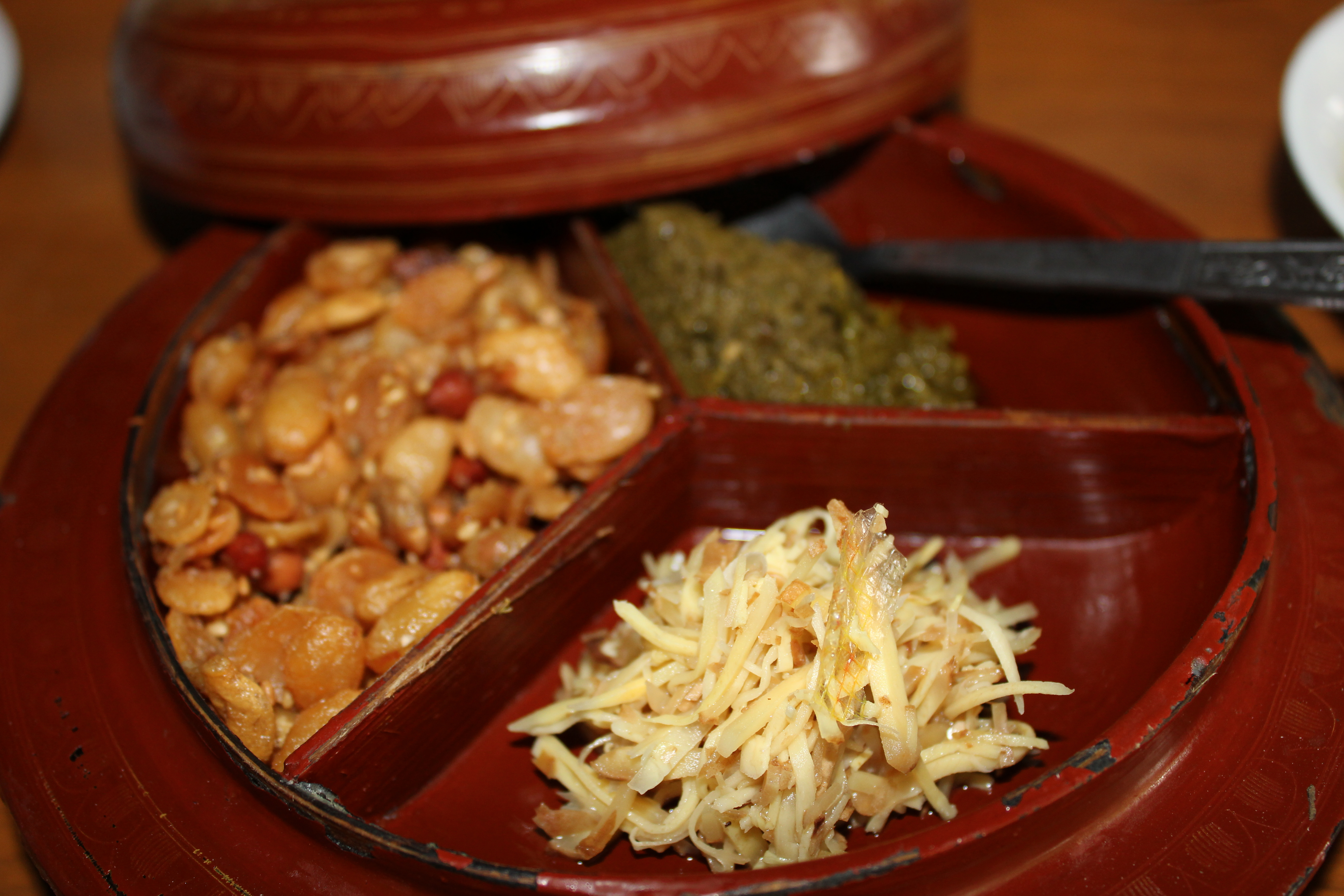 Traditional Pickled Tea & Ginger salad served with fried peasမြန်မာဘာသာ: မြန်မာ့ရိုးရာ လက်ဖက်​နှင့်​ဂျင်း​သုပ်